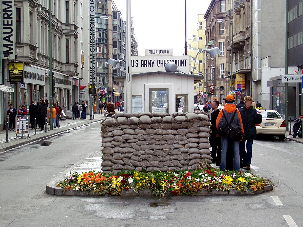 Berlin-Checkpoint Charlie Memorial Site - East → West